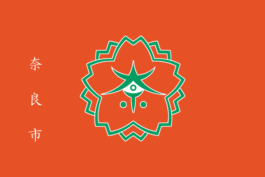 Flag of Nara, Nara